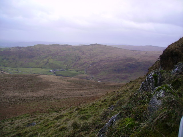 Dryhowe Farm in Bannisdale from the slopes of Capplefall. Whiteside Pike on the horizon